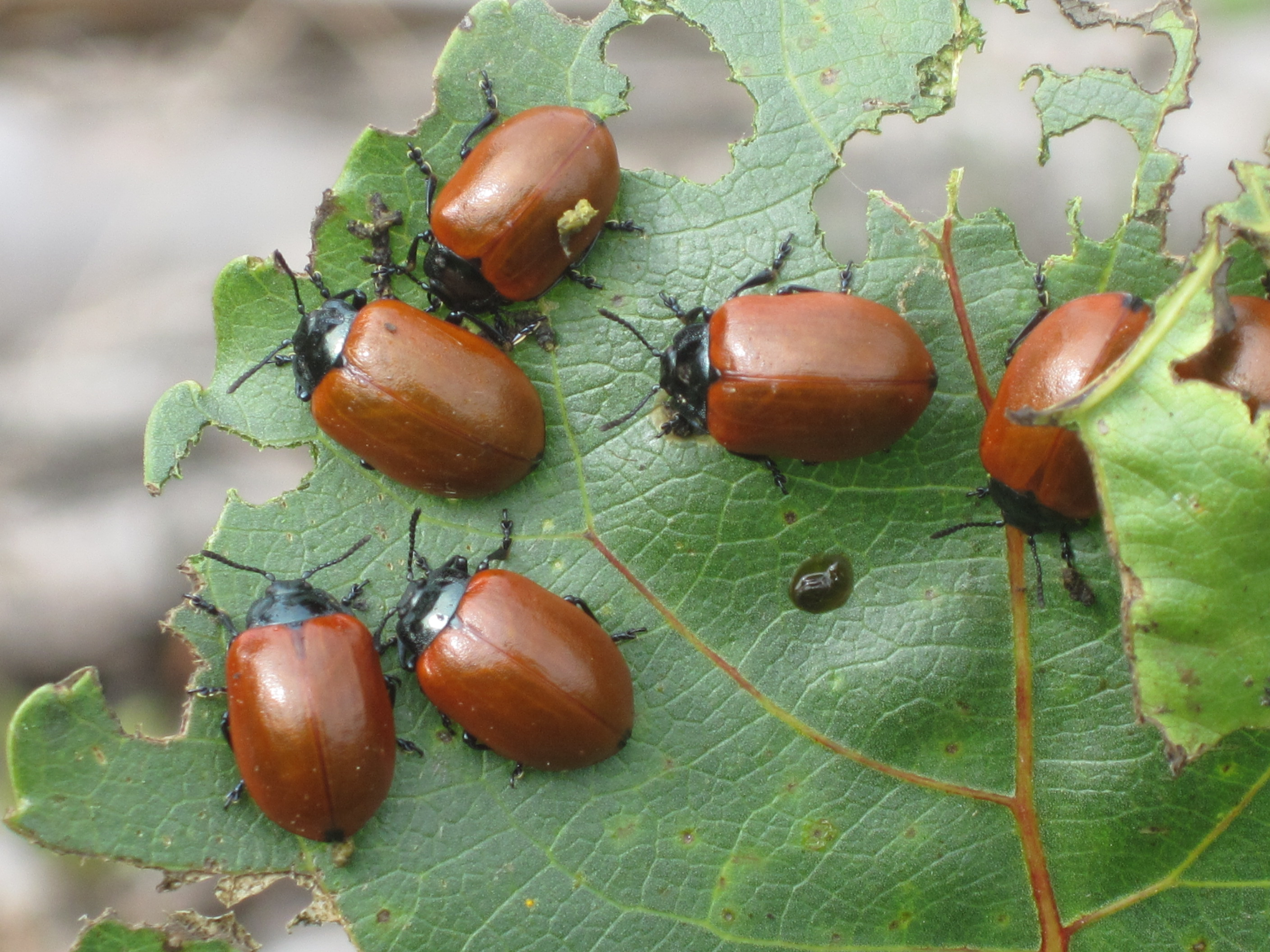 Chrysomela populi (Poplar Leaf Beetles), Arnhem, the Netherlands